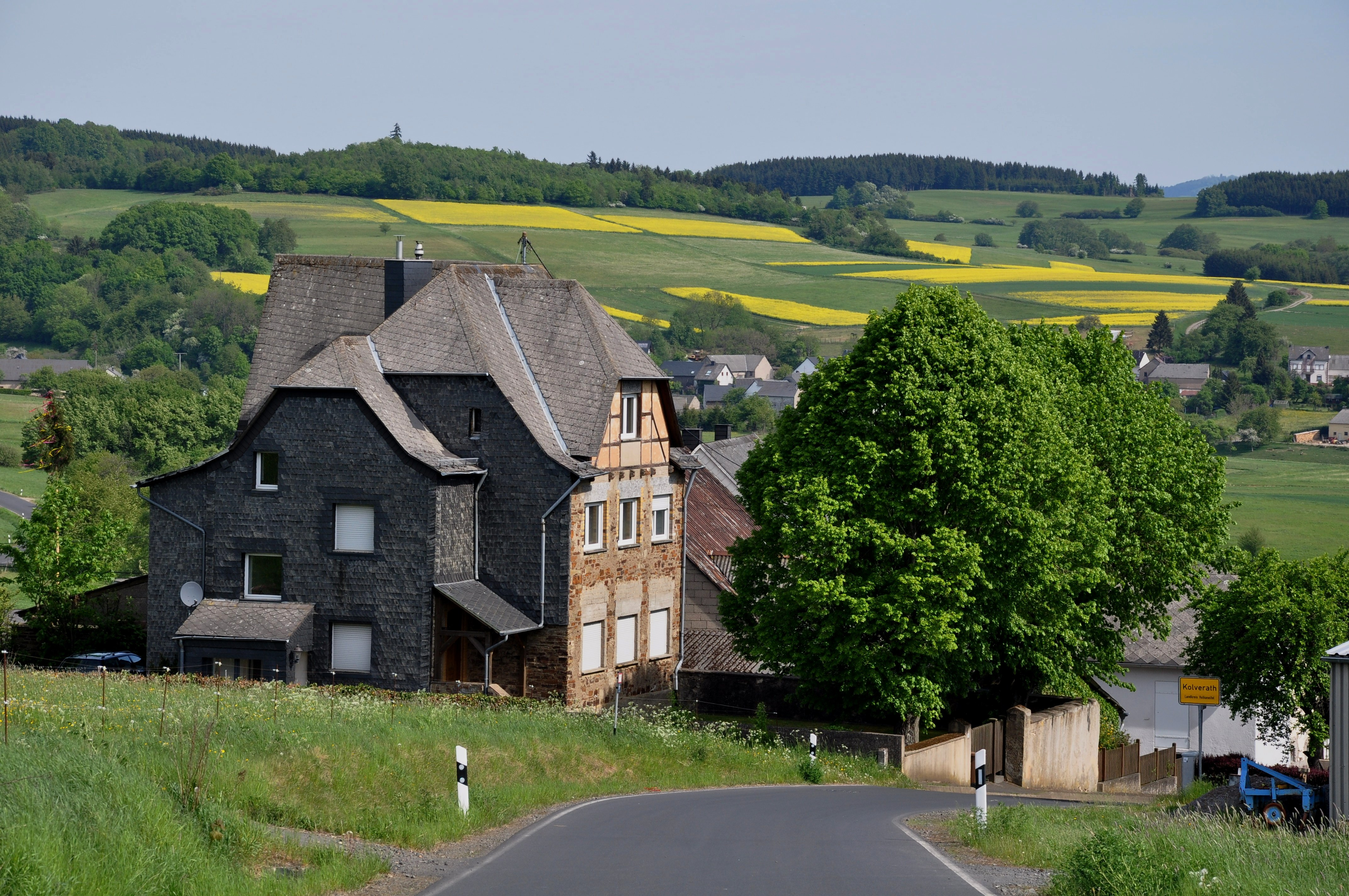 Entering the village of Kolverath (Kelberg Municipality, District Vulkaneifel, Rhineland-Palatinate, Germany).